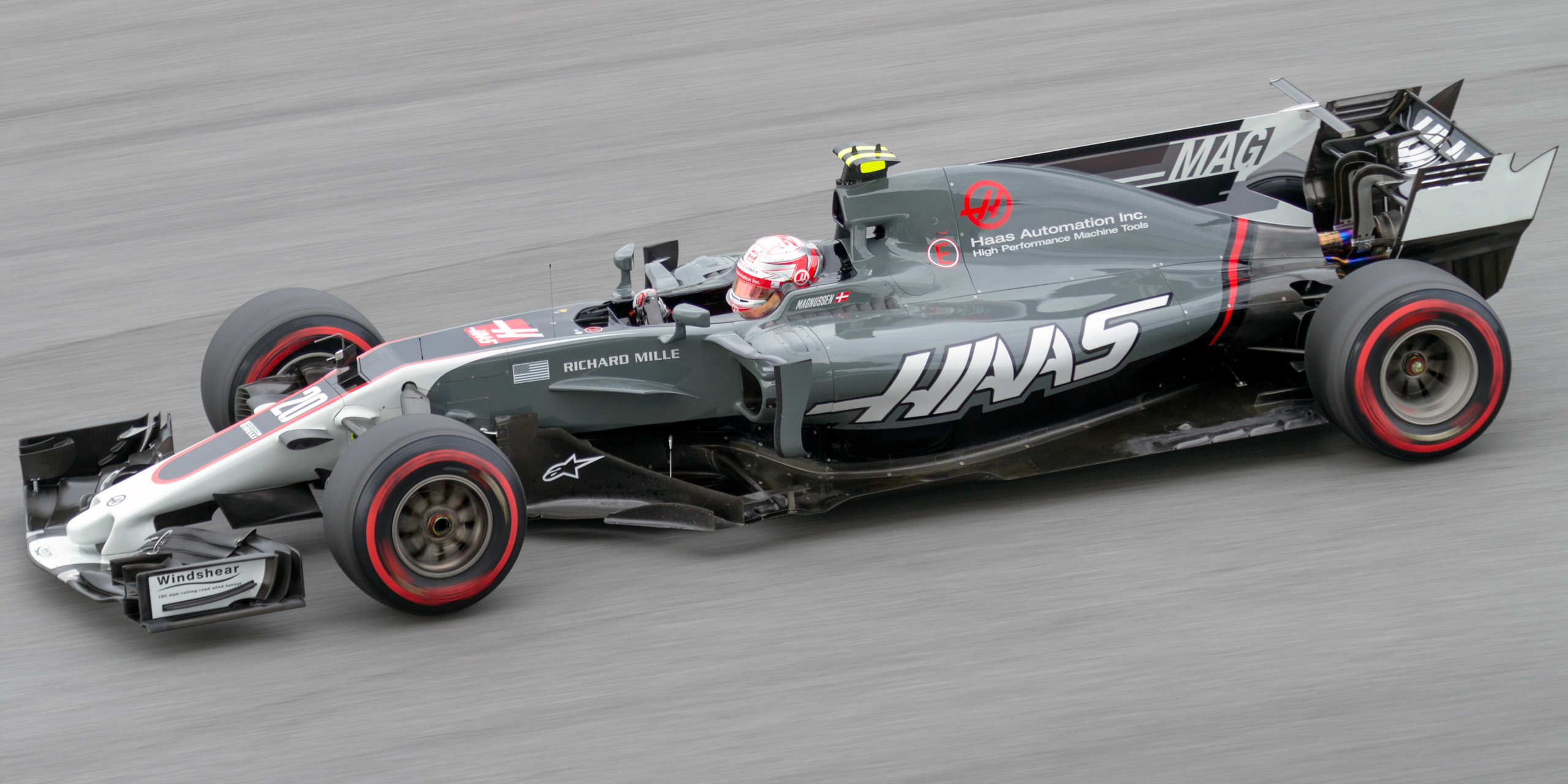 Formula One 2017 Rd.15 Malaysian GP: Kevin Magnussen (Haas F1 Team)